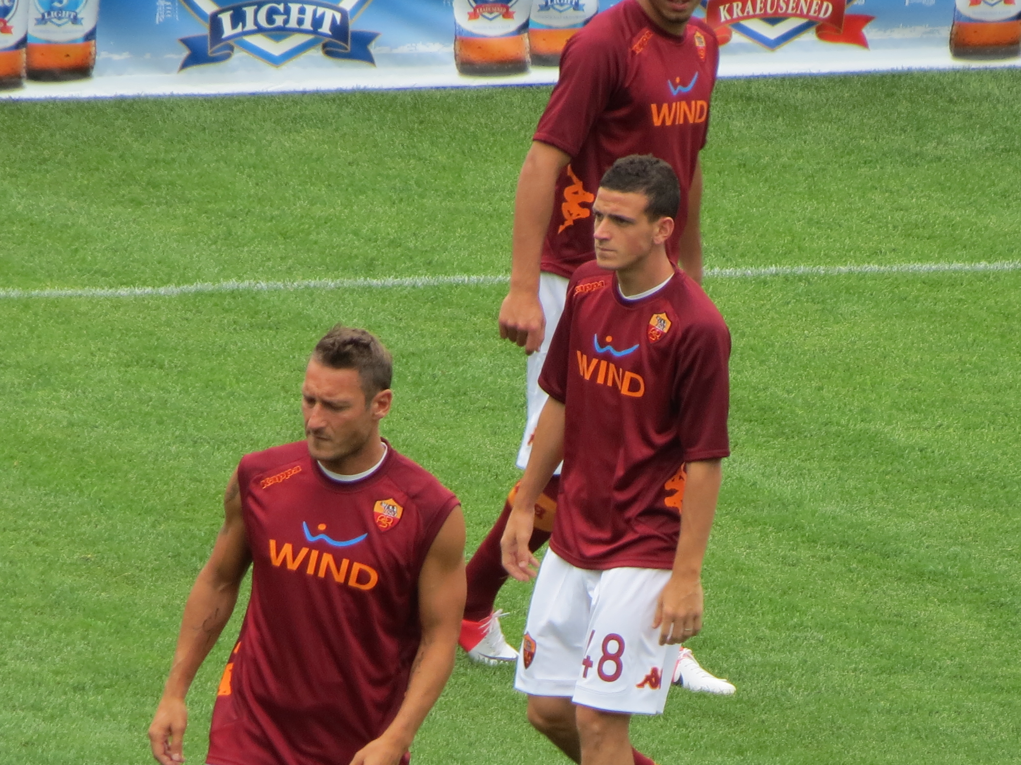 Alessandro Florenzi (48) of Roma training, Francesco Totti in the foreground.